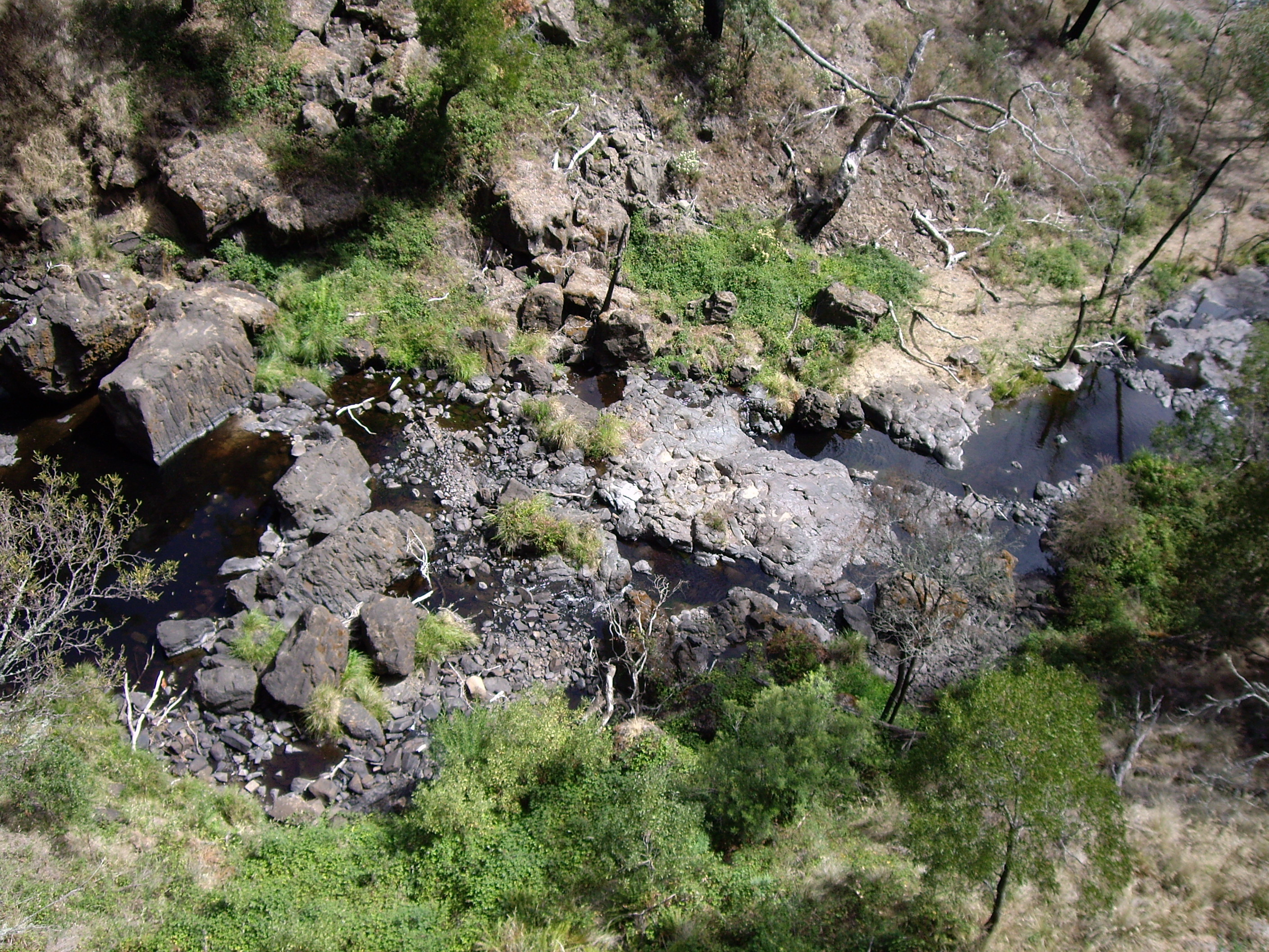 Photograph taken by VirtualSteve. Full catalogue of all my images uploaded to Wikipedia available here Images